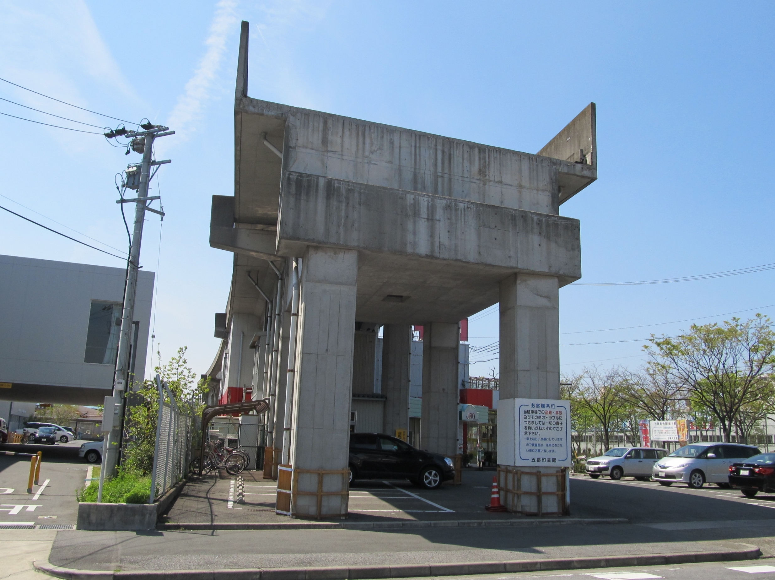 Japanese National Railways Nanpō Freight Line Viaduct (Ruins)